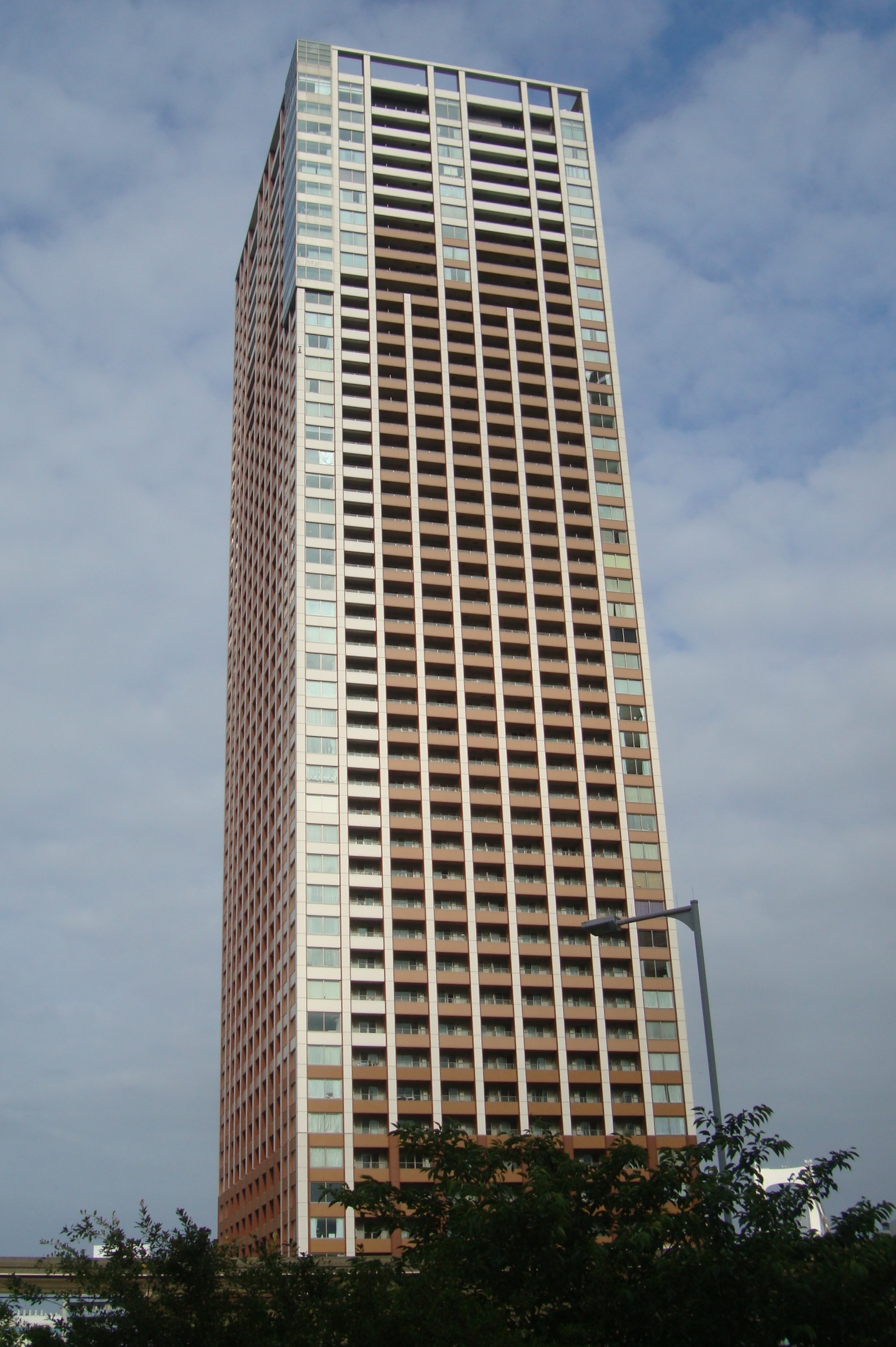 Air Tower apartment building at the Shibaura Island complex in Shibaura, Tokyo